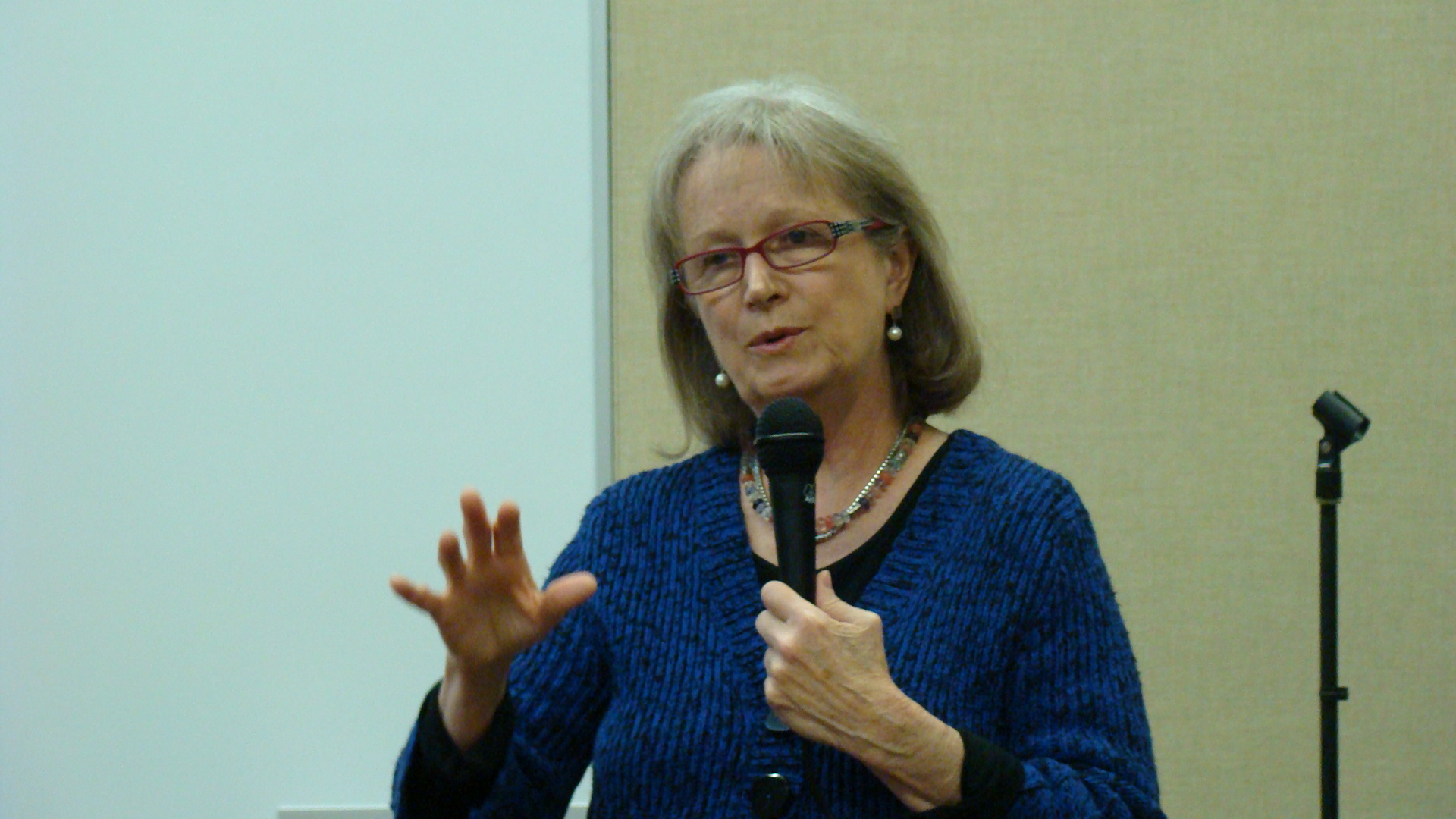 Nancy Pickard